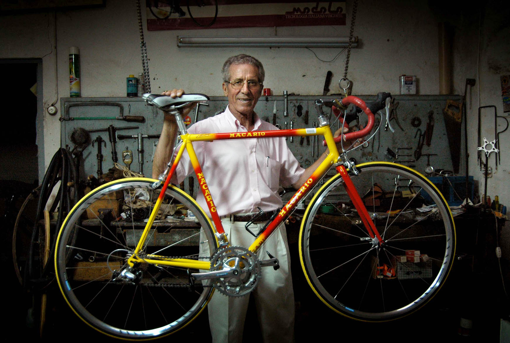 Federico Martín Bahamontes, Spanish former professional road racing cyclist in his bicycle shop in Toledo in 2005.